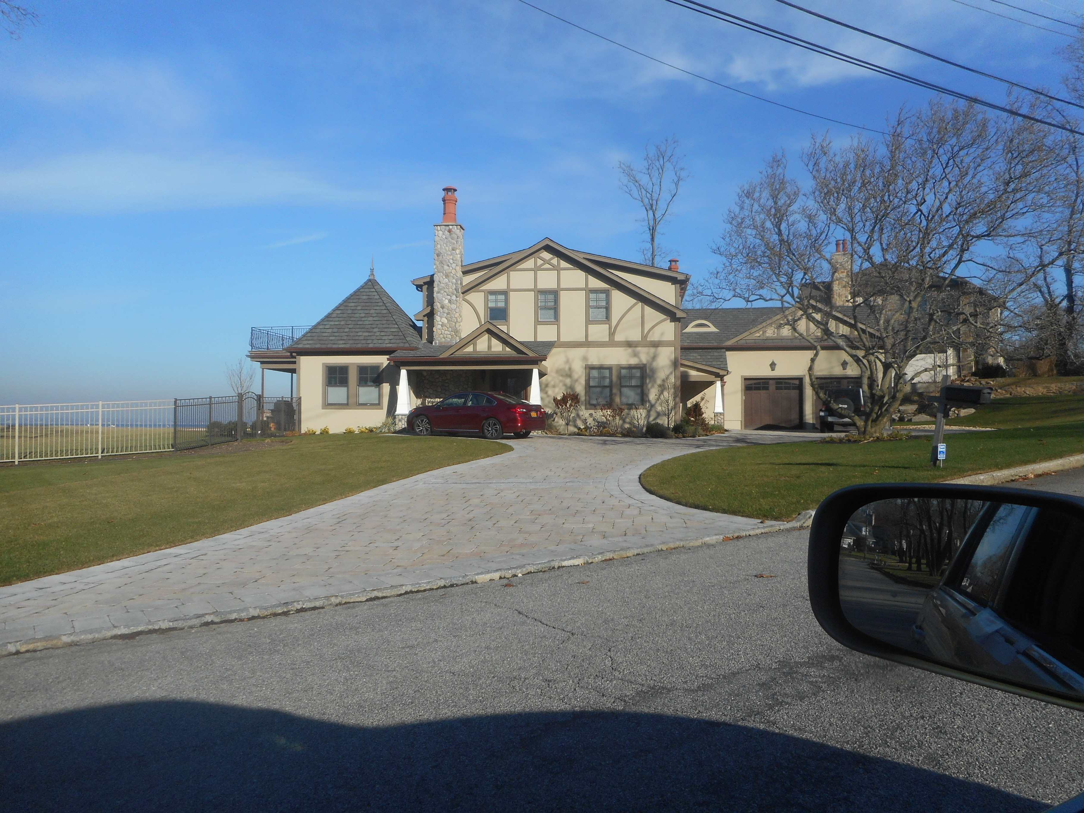 Evidently 26 Westland Drive on East Island in Glen Cove, New York. According to the National Parks Service, this house is on the National Register of Historic Places. However it has clearly been remodeled to more modern standards, and I saw the reconstruction back in April 2019.UPDATE; February 15, 2020; The house is confirmed to be the NRHP-listed Shell House.